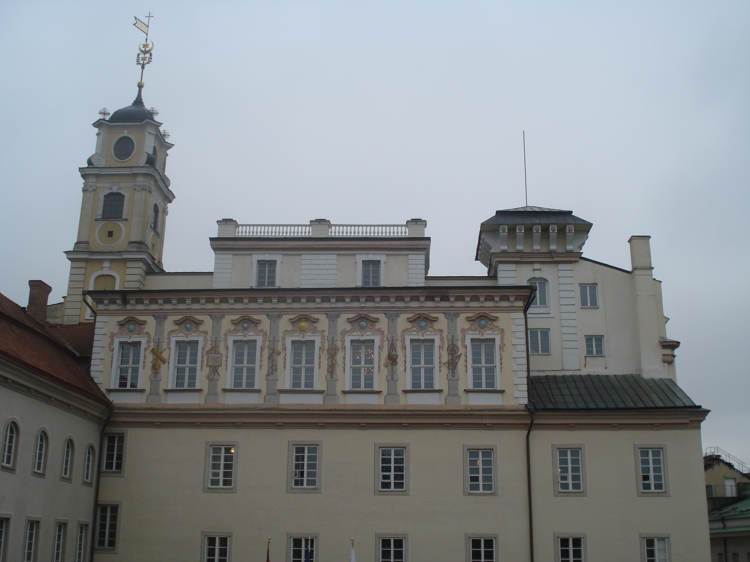 Vilnius University. Old astronomicla observatory